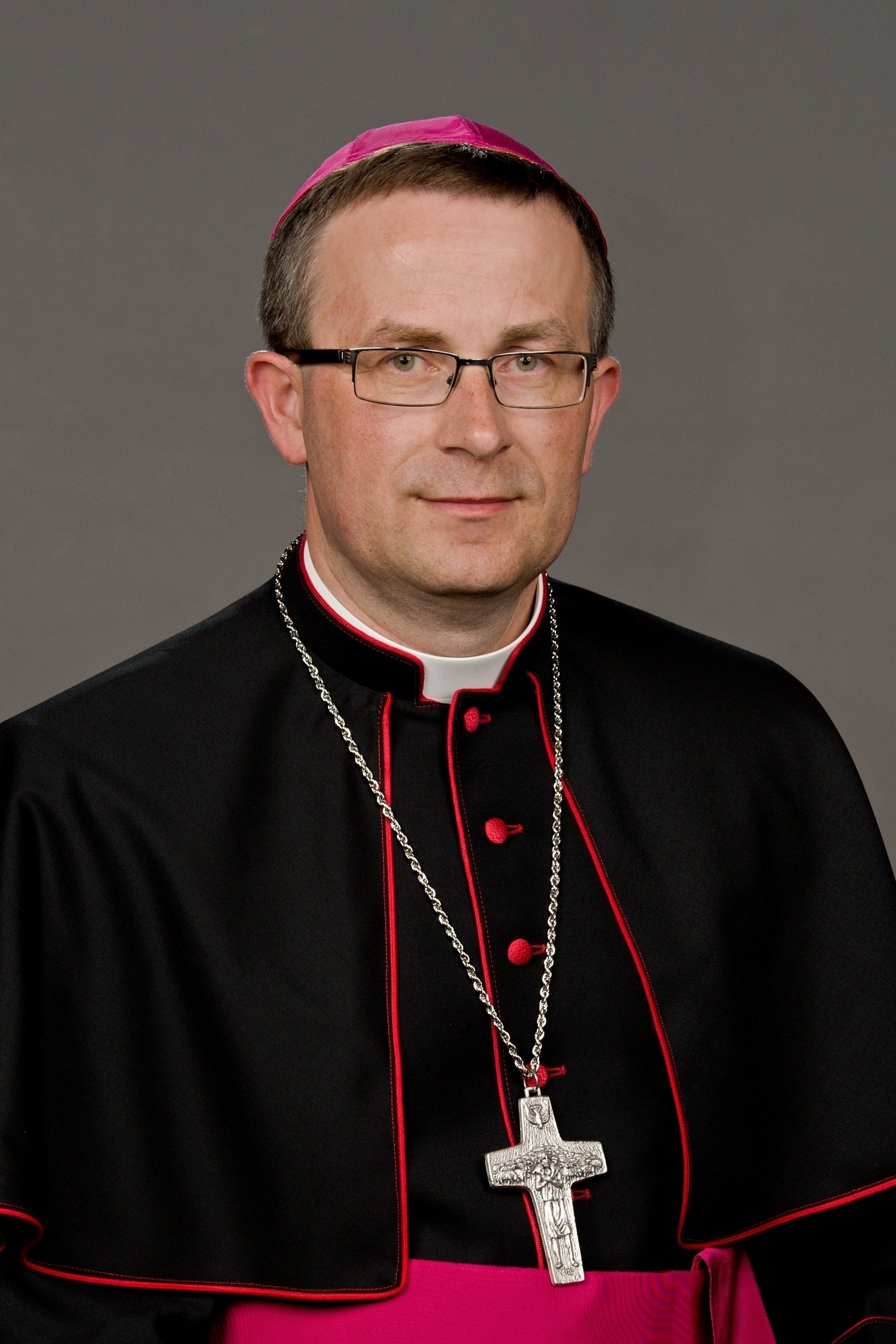 Bishop Martin David